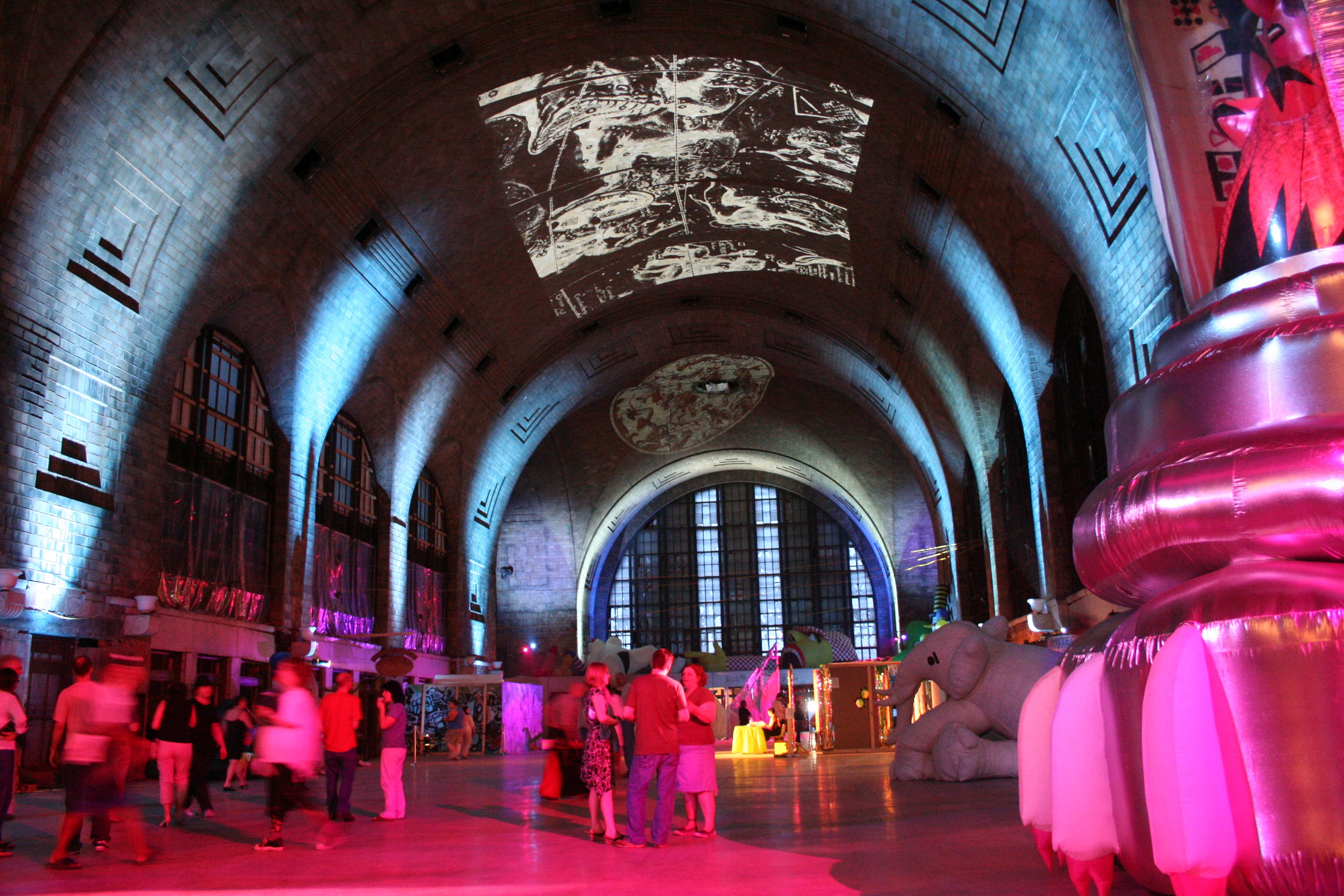 This picture was taken in 2007 in the Buffalo Central Terminal of the Hallwalls Contemporary Art Center's Artists & Models fundraiser event.